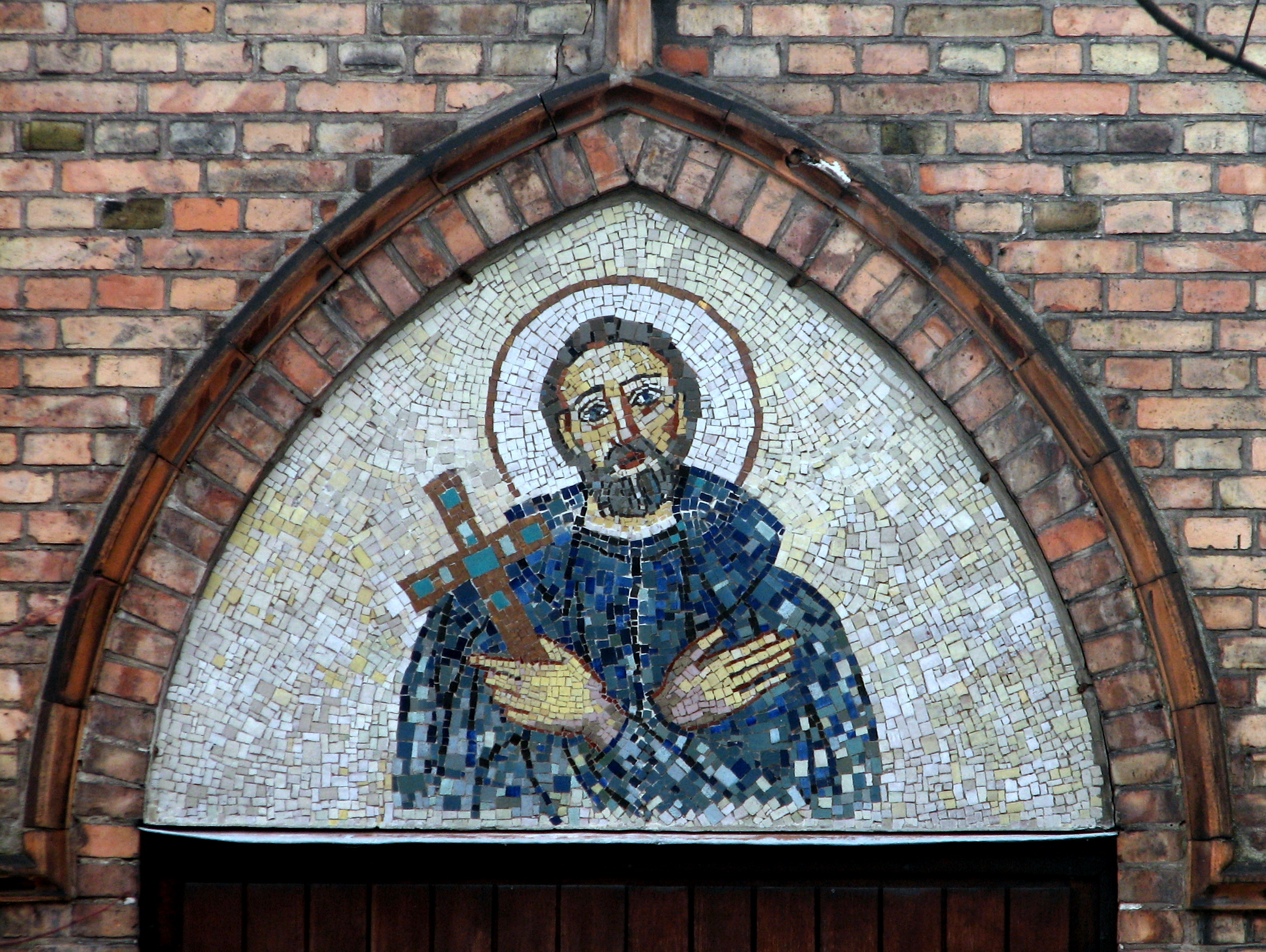 Mosaics of St. Andrew Bobola on Roman Catholic Parish of St. Andrew Bobola in Sopot.